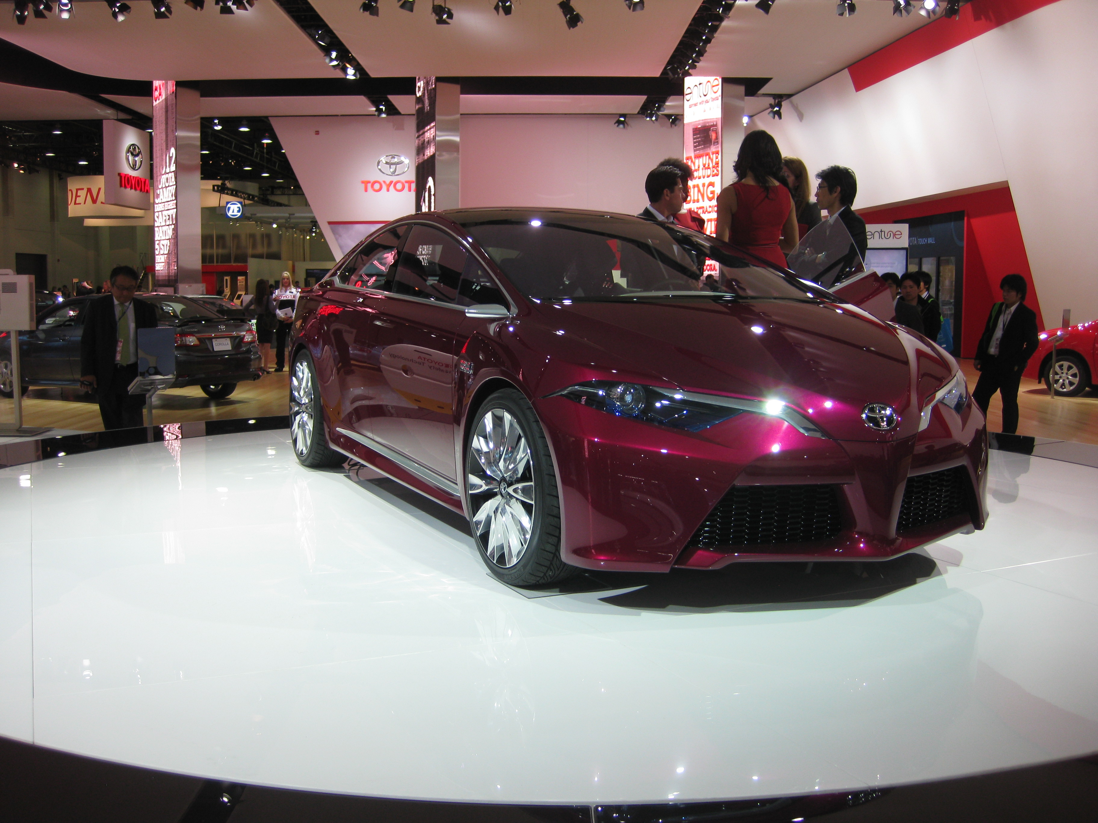 For more info and images please check